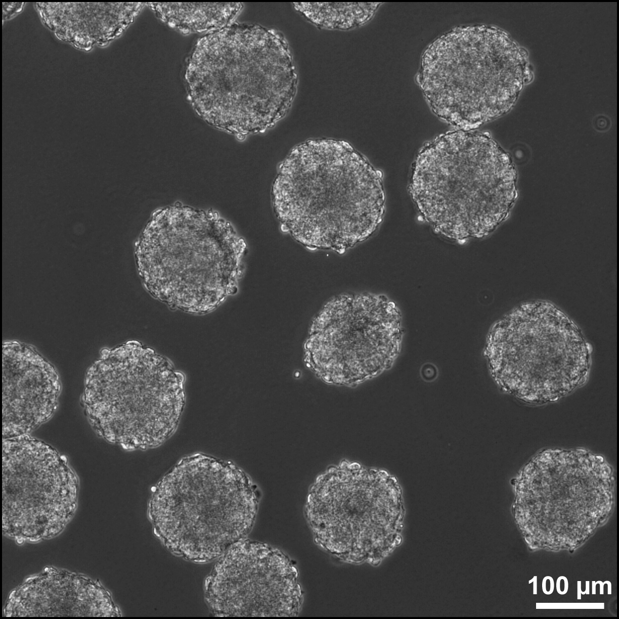 Phase image of embryoid bodies (EBs) in suspension culture after 24 hours of formation. EBs were created from approximately 1000 mouse embryonic stem cells (D3 cell line). Scale bar = 100 µm.